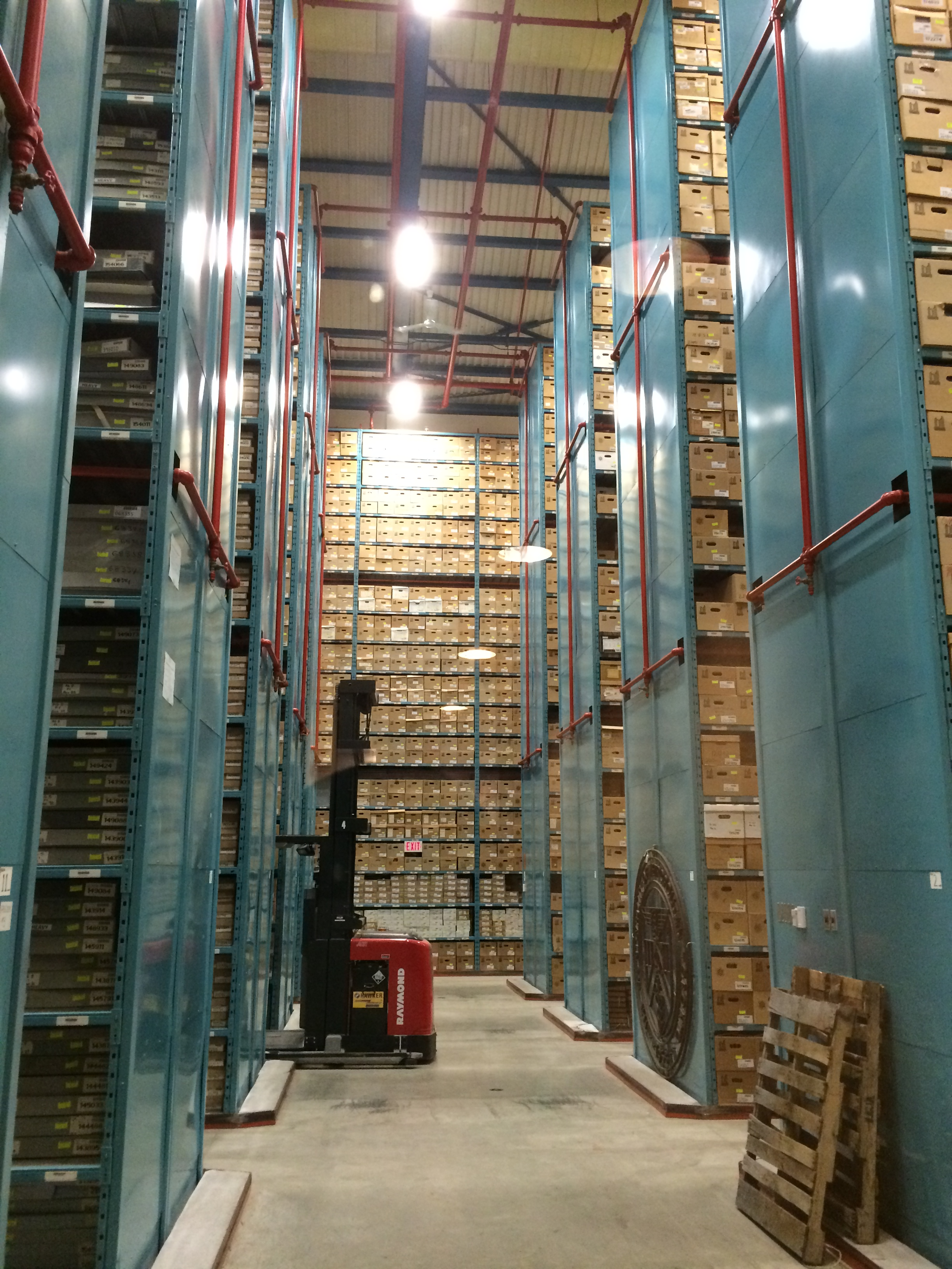 Stacks of the City of Toronto Archives